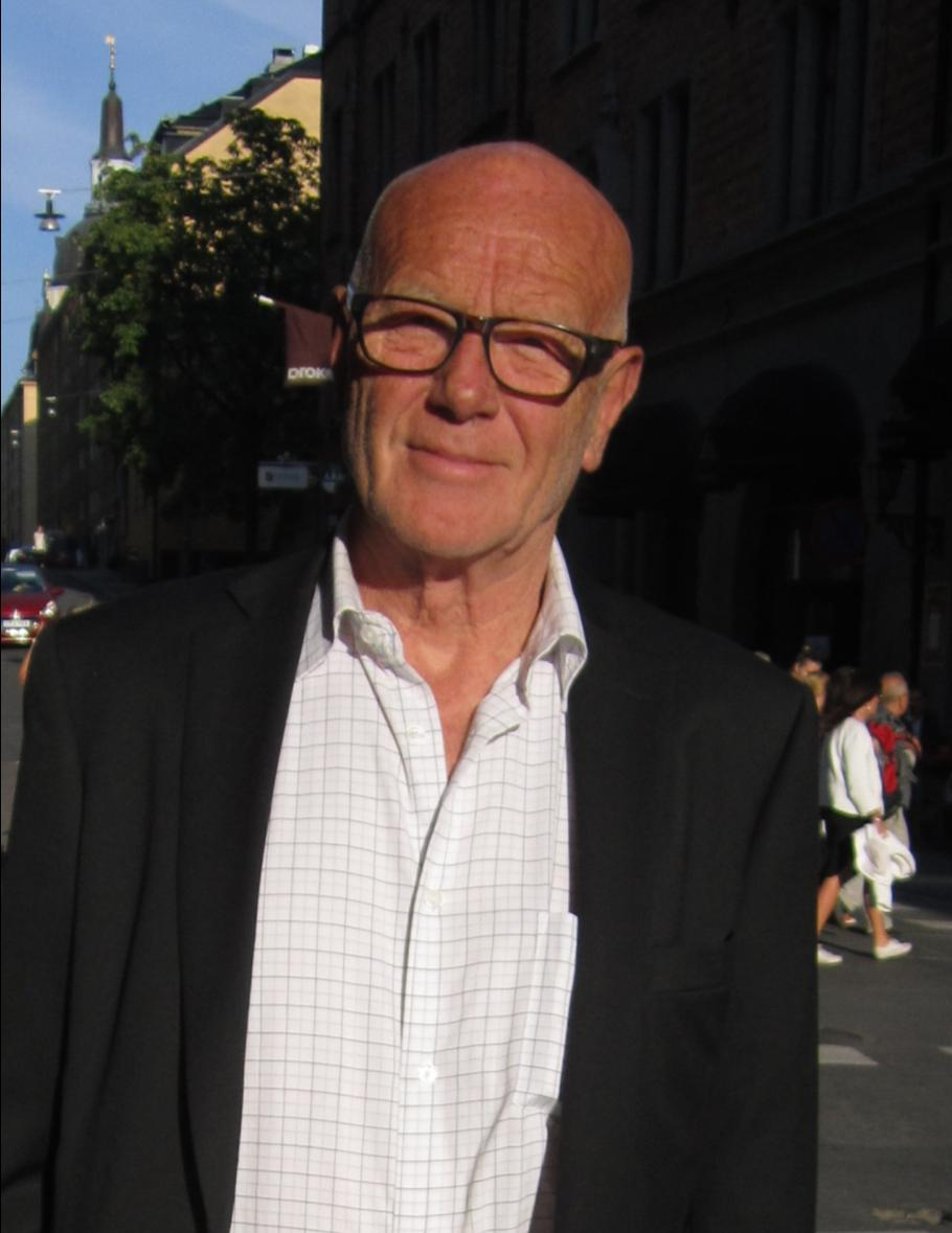 Swedish entertainer Gert FylkingPlace: Högbergsgatan, Stockholm, Sweden